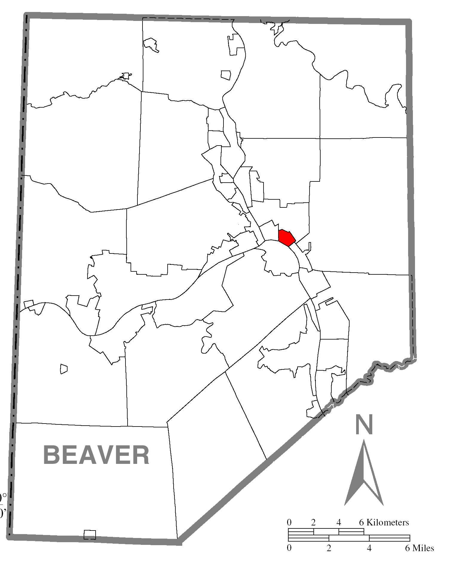 A map of Beaver County showing East Rochester, Pennsylvania (alternate) highlighted on the map.